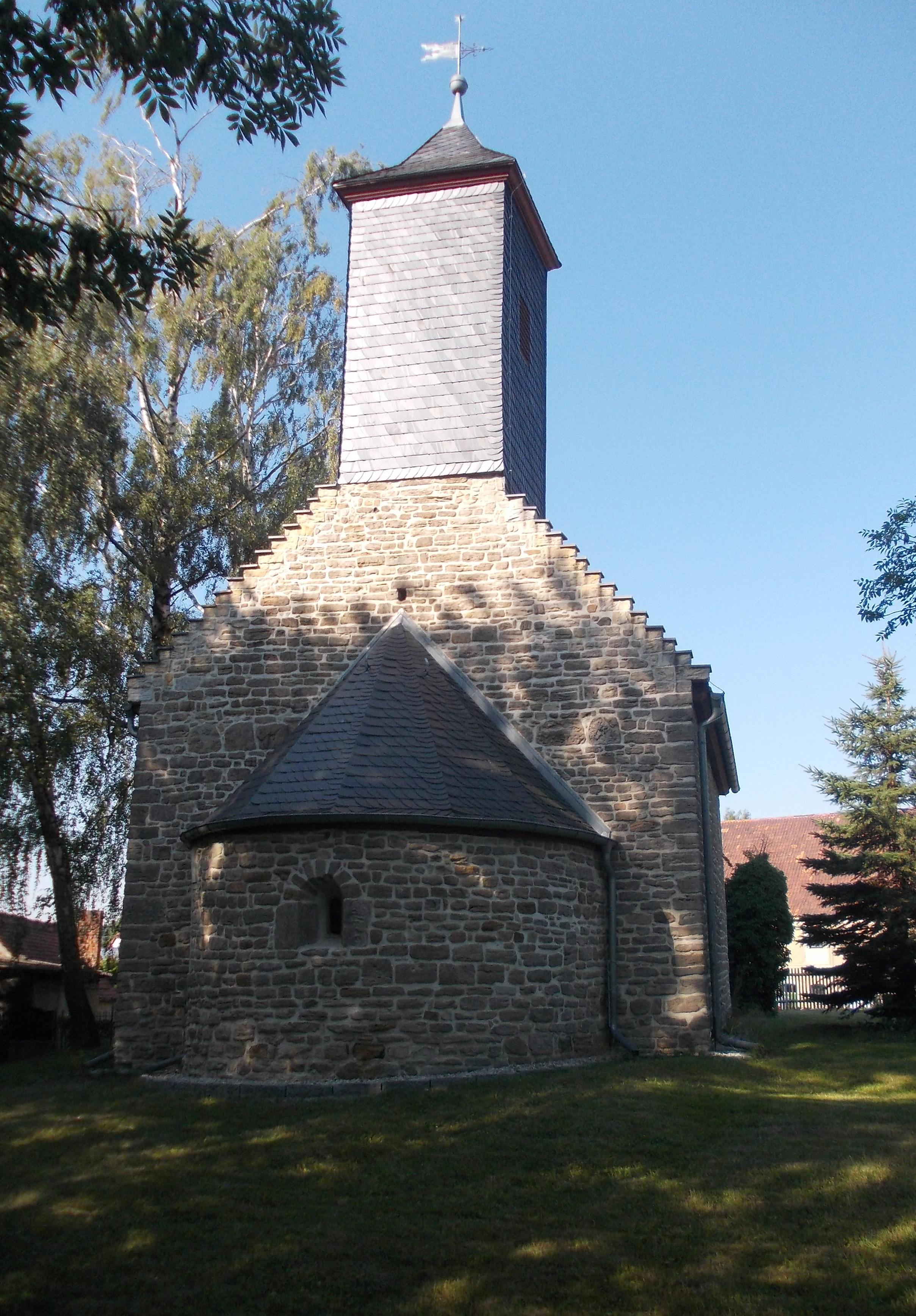 Nissma church (Elsteraue, district: Burgenlandkreis, Saxony-Anhalt)